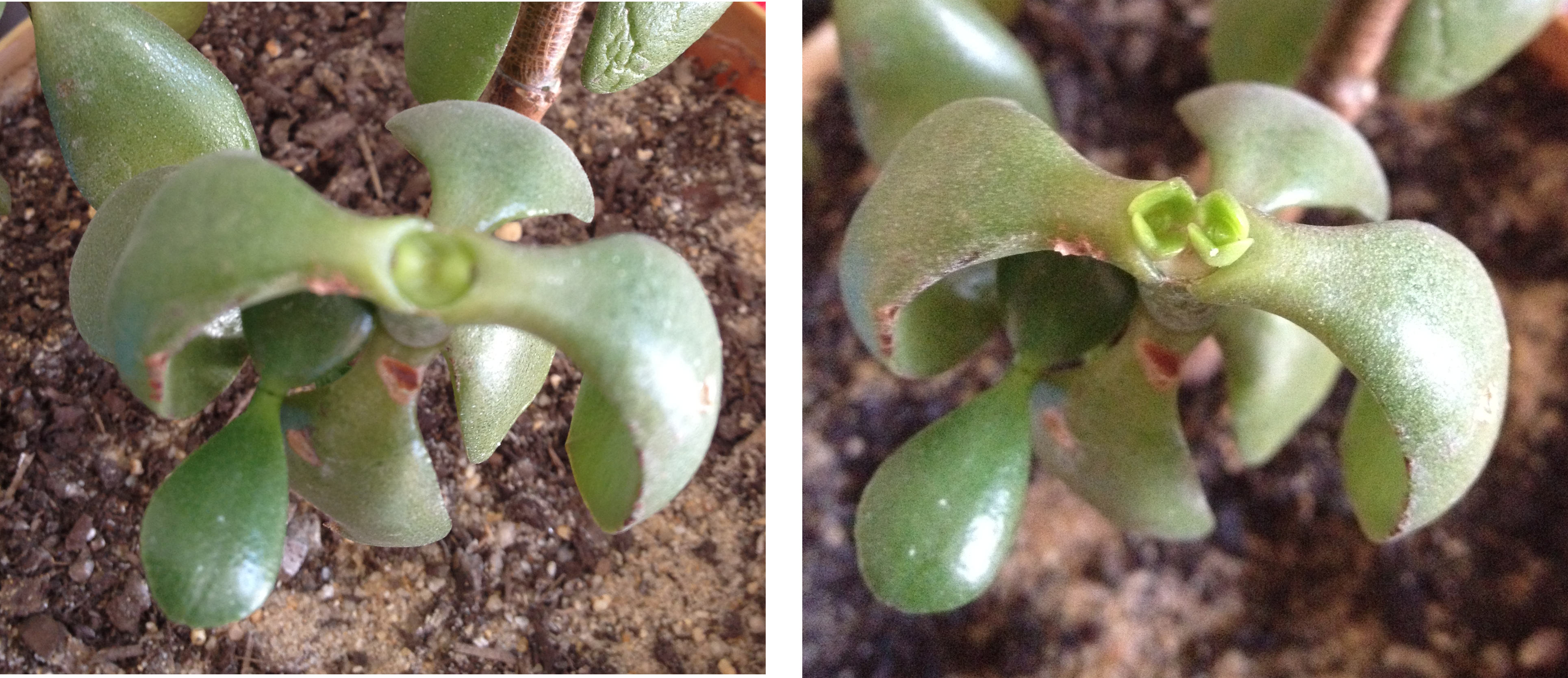 Apical meristem before and after development.